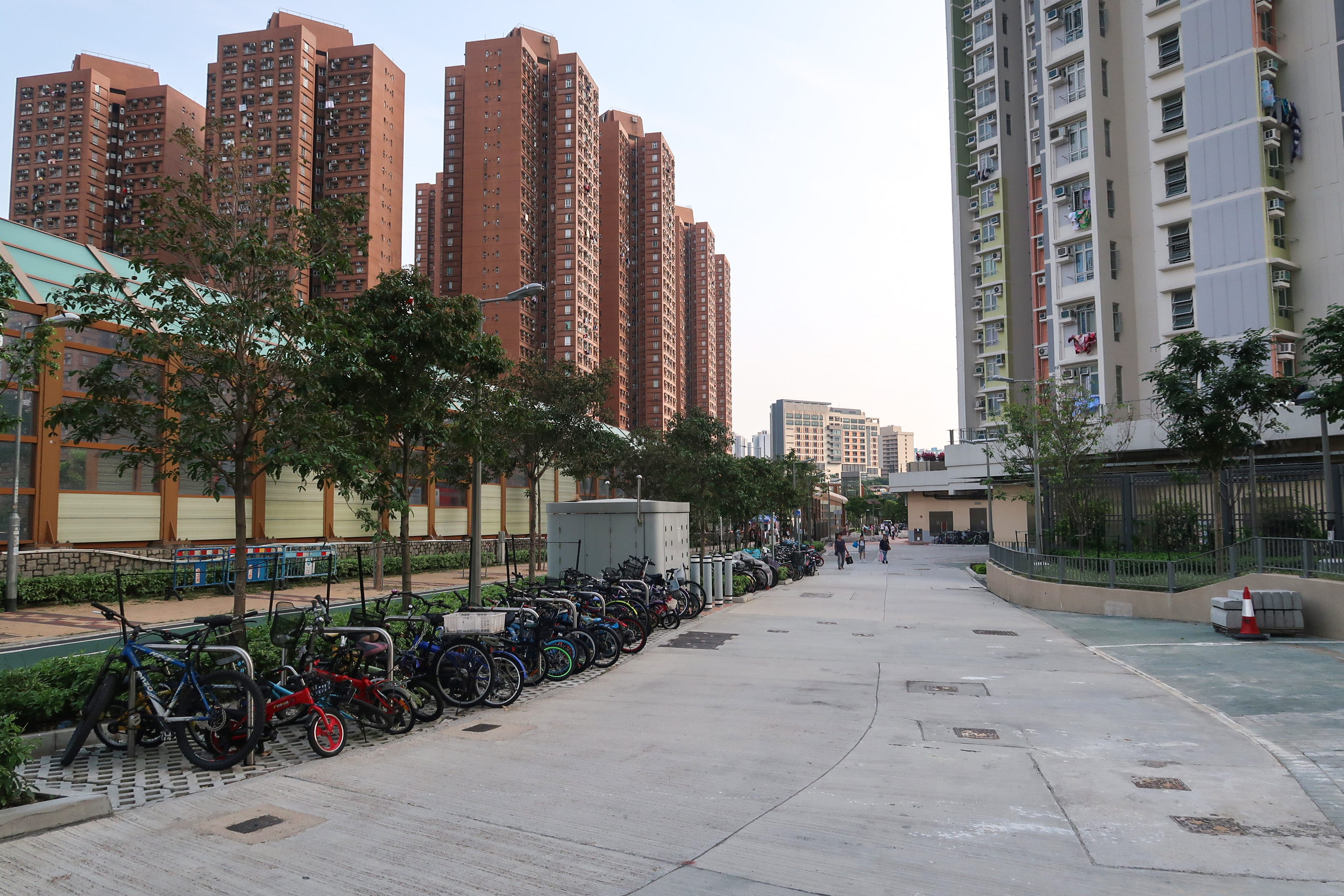 Yan Tin Estate Bicycle parking